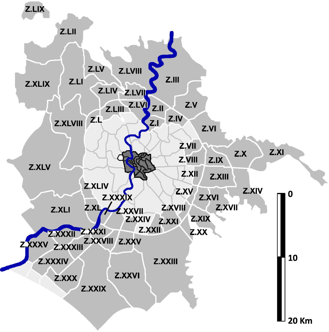 Map of the Rome Zones